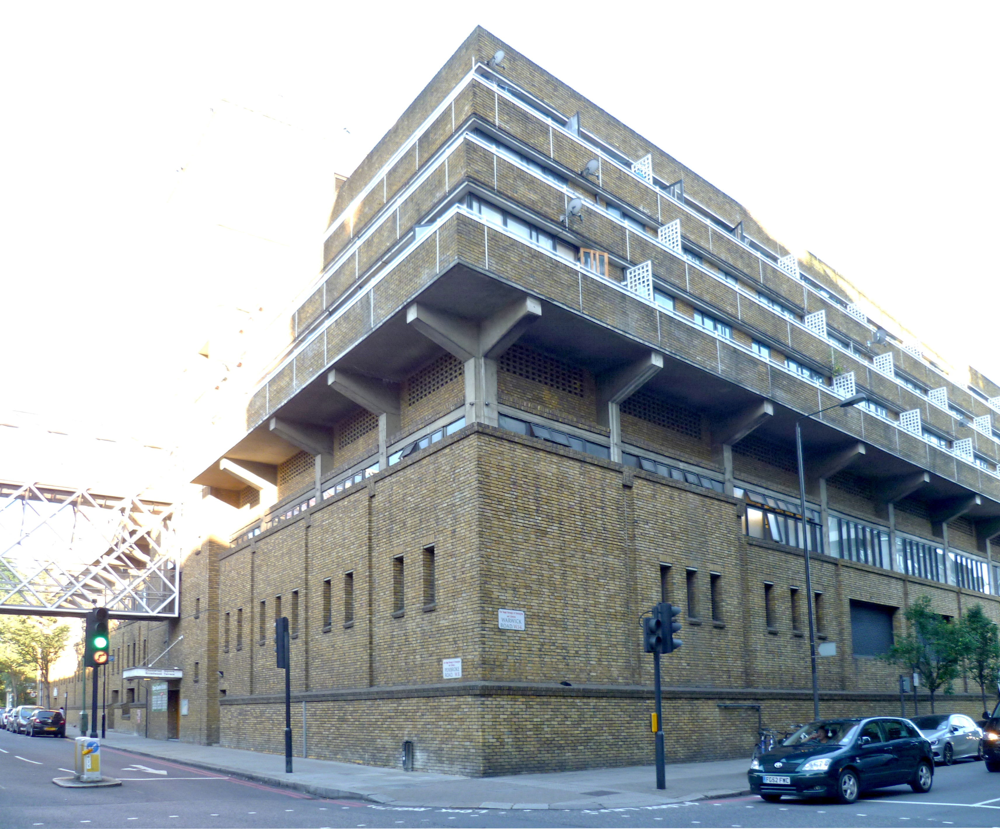 Chesterton Square, Warwick Road, London, SW5. Forms a major civic/Council office with large courtyard (rather than an actual accessible from outside square) and some socially rented housing of the Royal Borough of Kensington and Chelsea